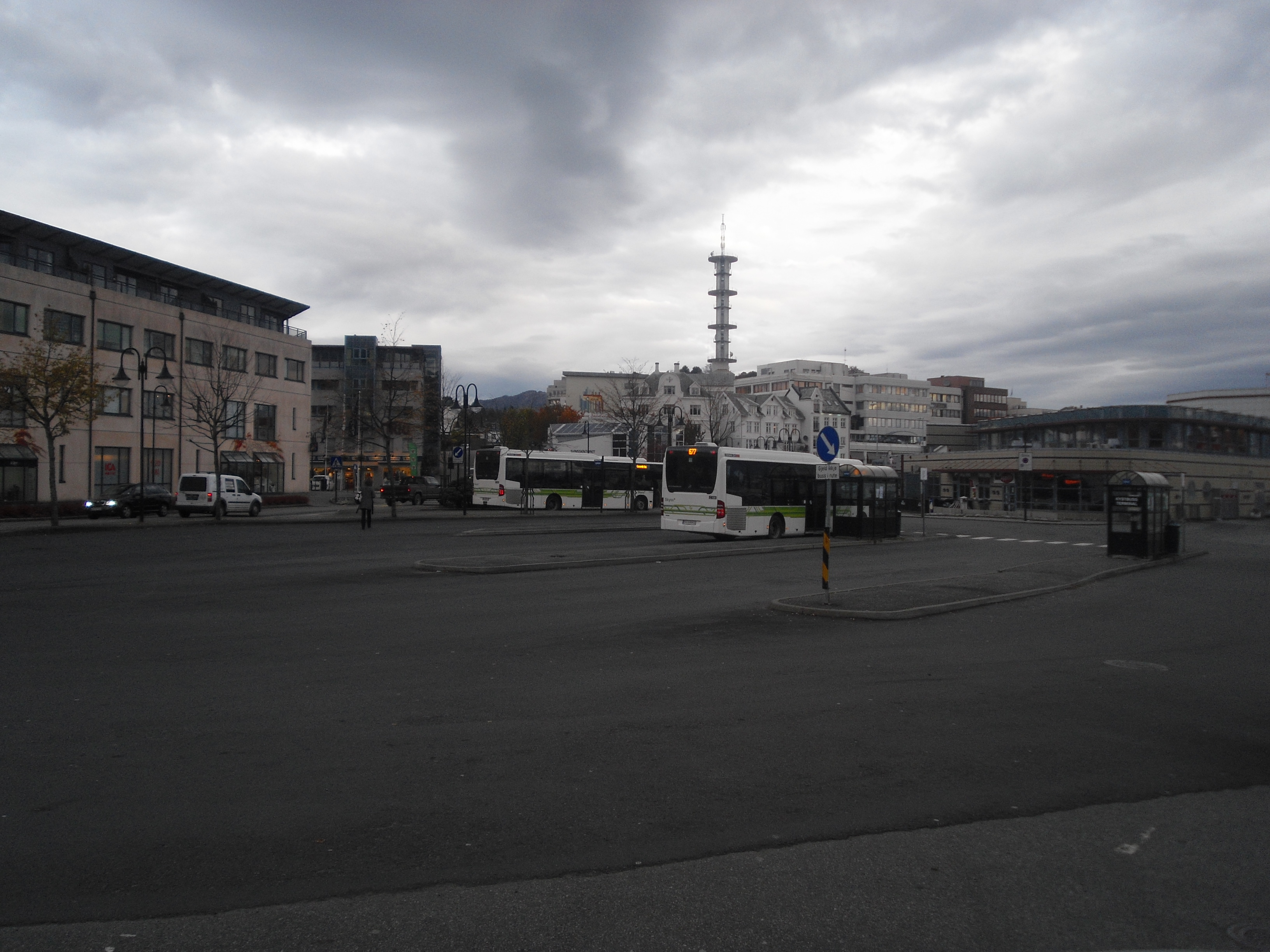 The center of Leirvik in the municipality of Stord, Norway